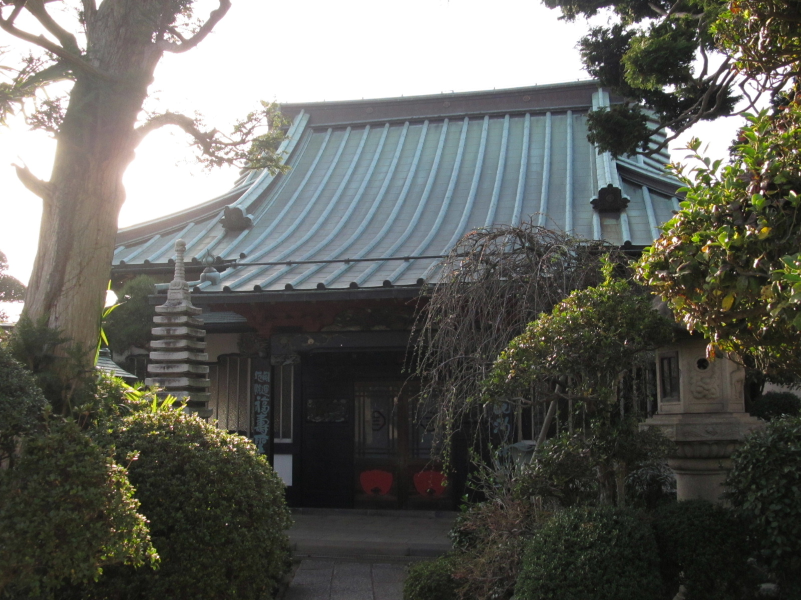 Shinjo-in in Fujisawa City, Kanagawa Prefecture, Japan